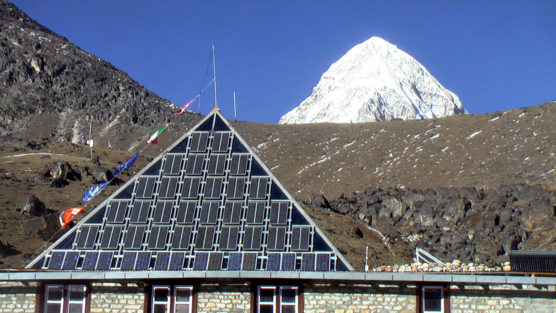 The Italian Pyramid. (Pyramid International Laboratory-Observatory)